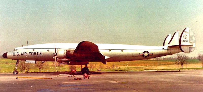 167th Air Ttansport Squadron Lockheed C-121G-LO 54-4068 WV ANG